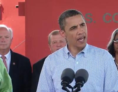 Obama Speech on oil spill.